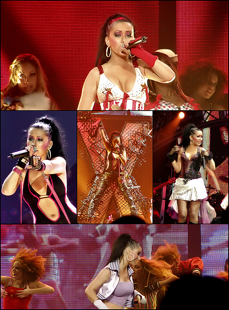 Stripped World Tour by Christina Aguilera